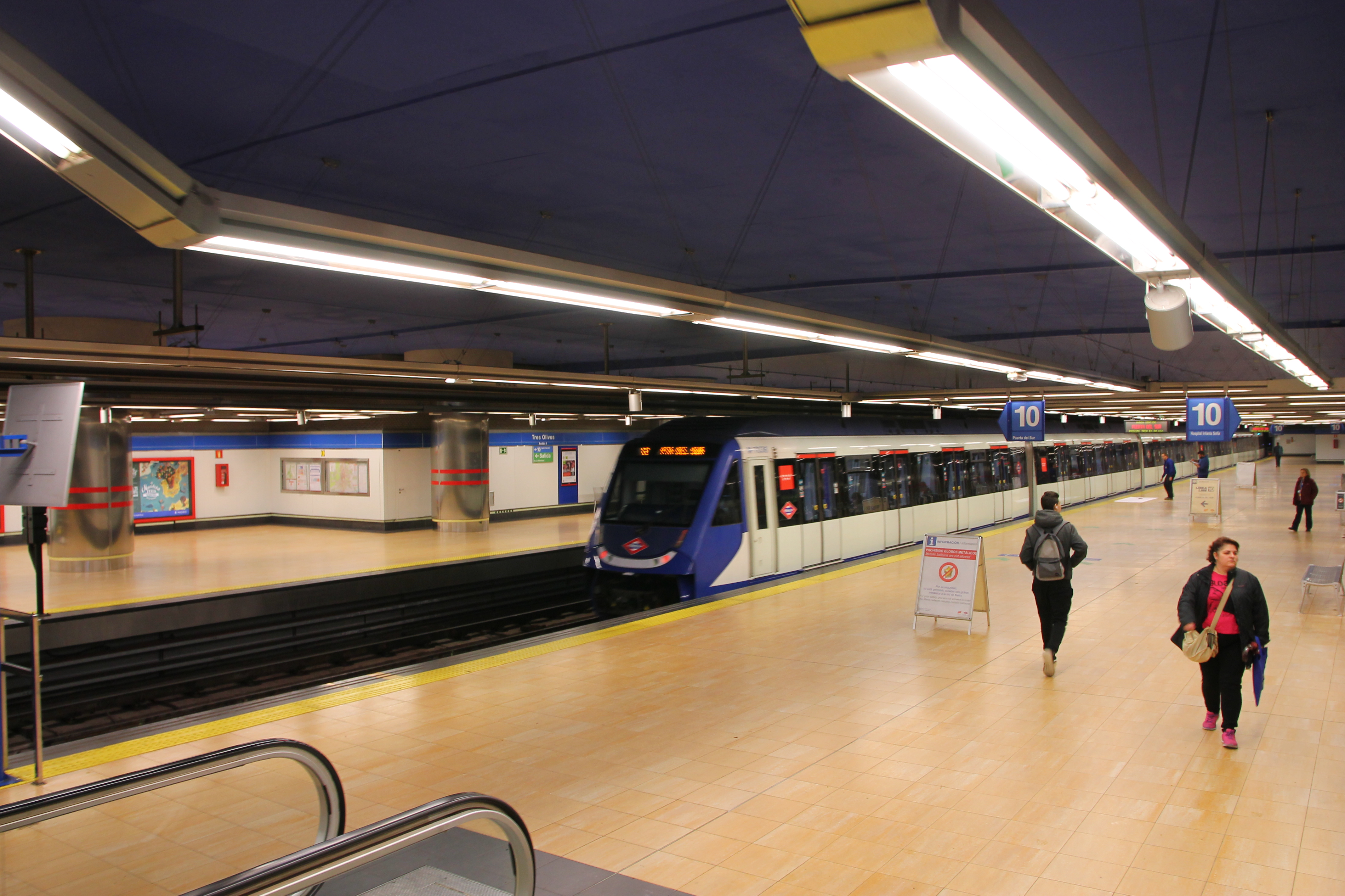 Estación de Tres Olivos